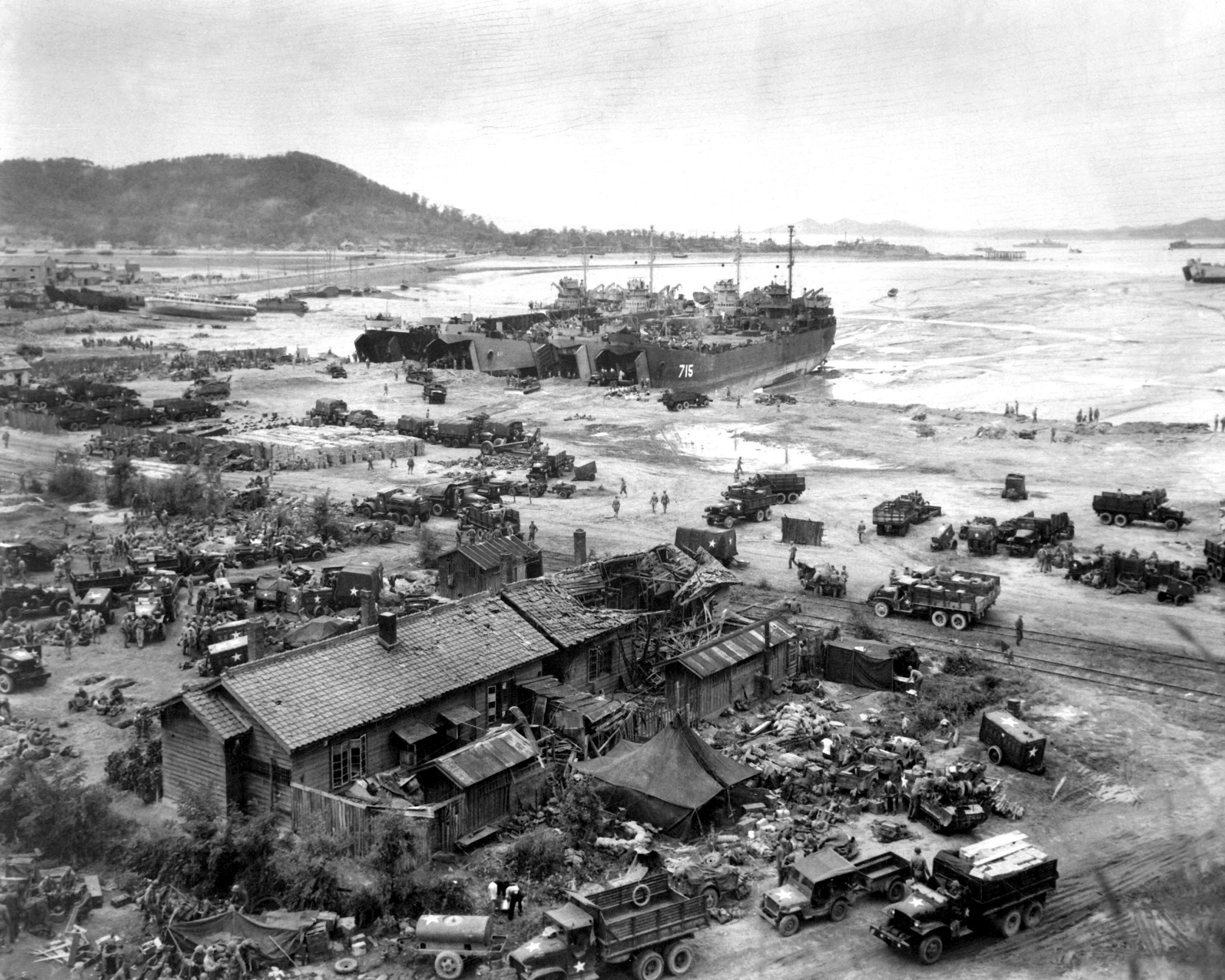 Invasion of Ichon, Korea. Four LST's unload men and equipment on beach. Three of the LST's shown are LST-611, LST-745, and LST-715. September 15, 1950. C.K. Rose. (Navy) NARA FILE #: 080-G-420027 WAR & CONFLICT BOOK #: 1406